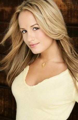 Jenn Brown, American television personality (sports/celebrity interviewer) and model